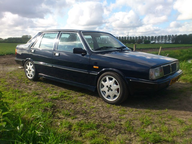 1985 Lancia Prisma 1600 serie 1